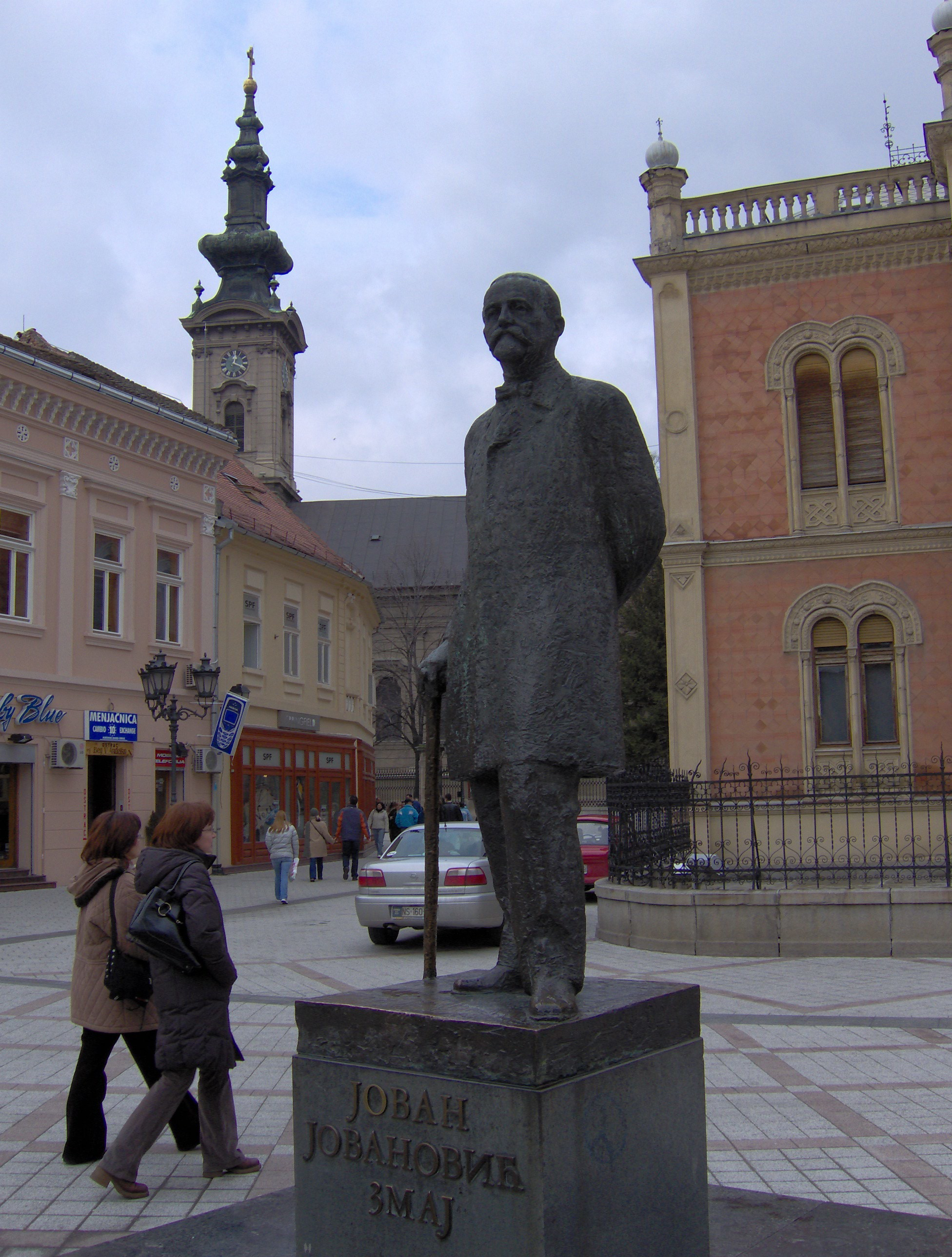 Spomenik J.J.Zmaja